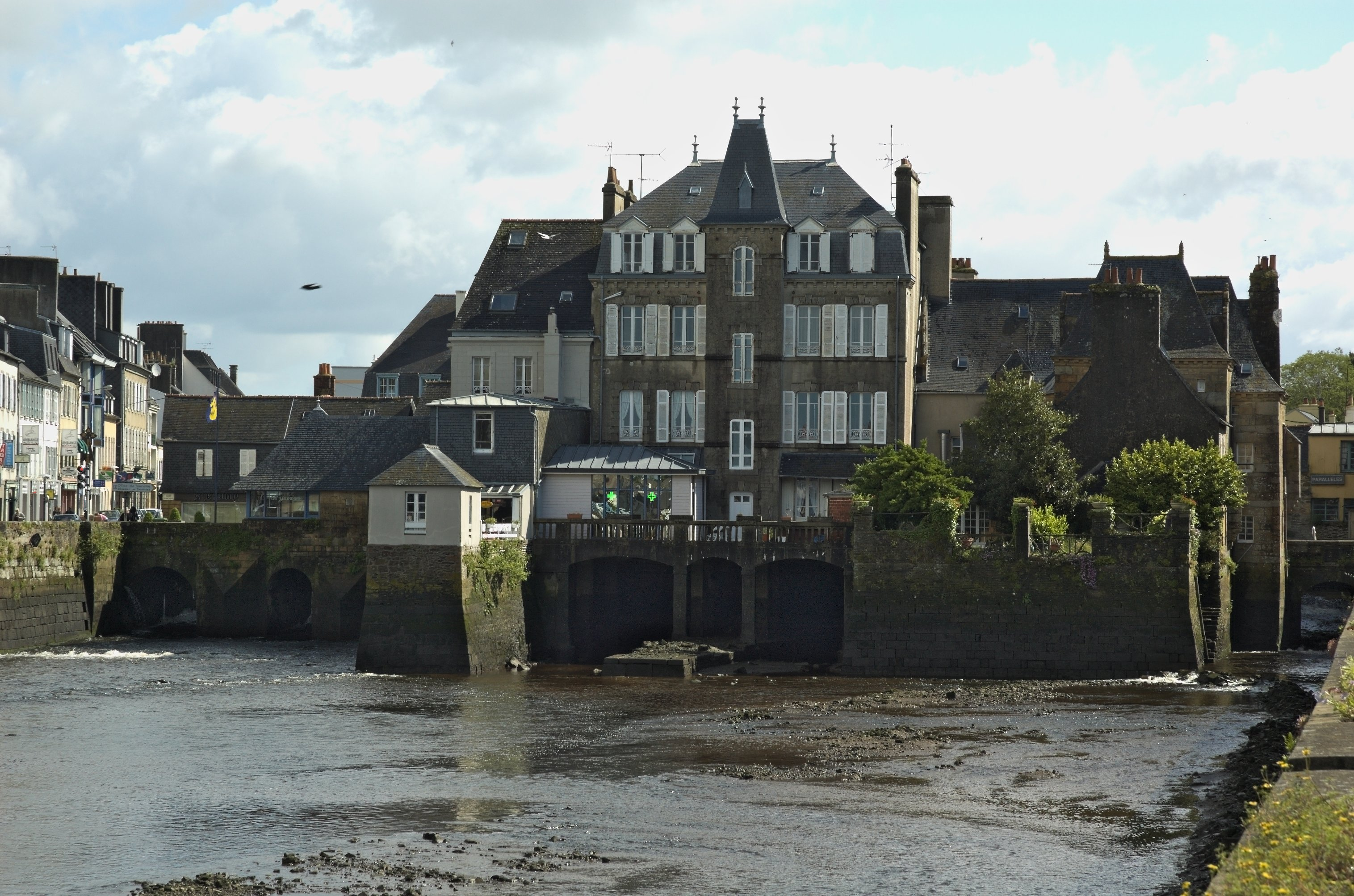 Pont de Rohan, the downstream side, Landerneau.